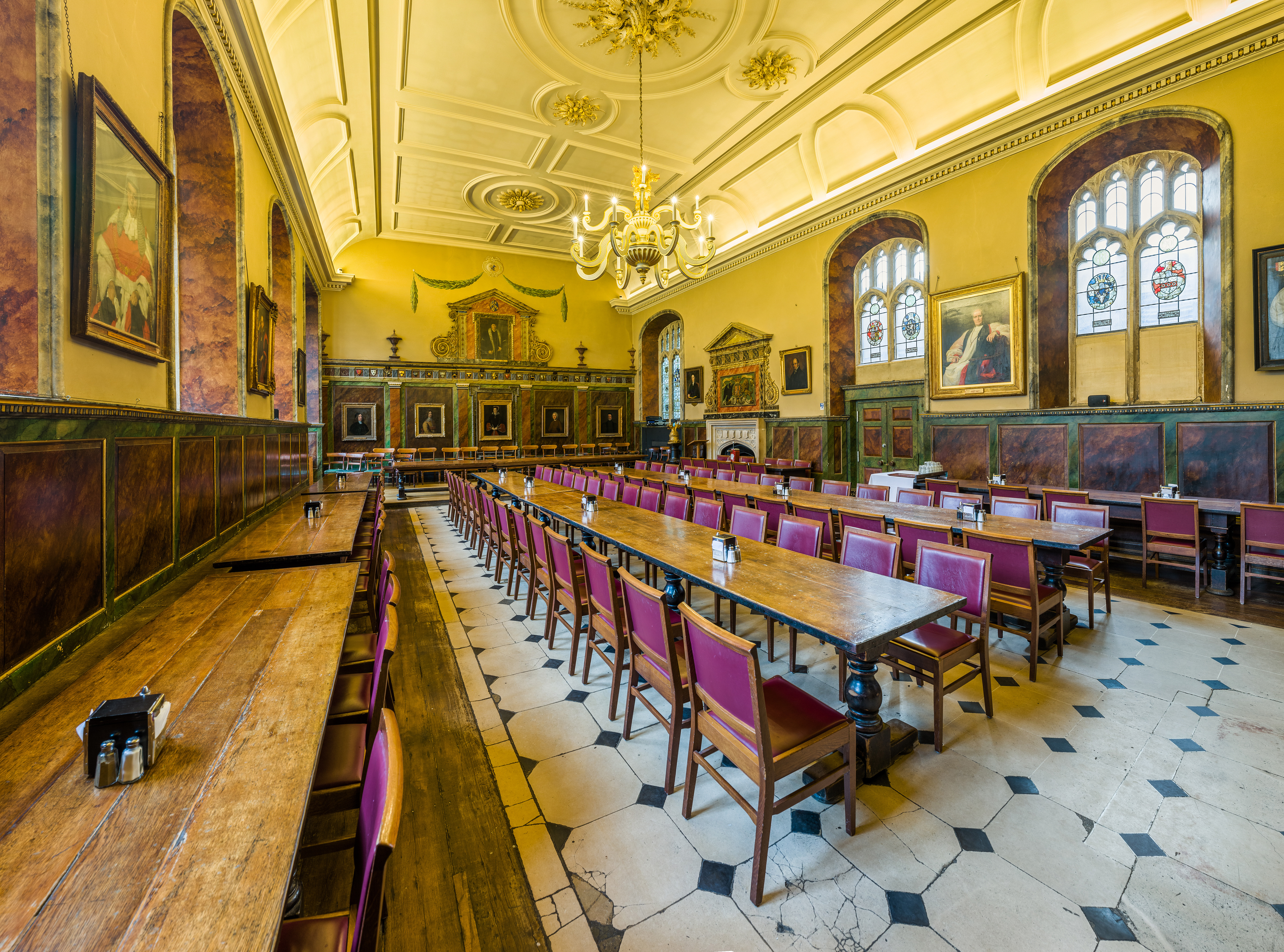 The Dining Hall of Trinity College in Oxford, England.